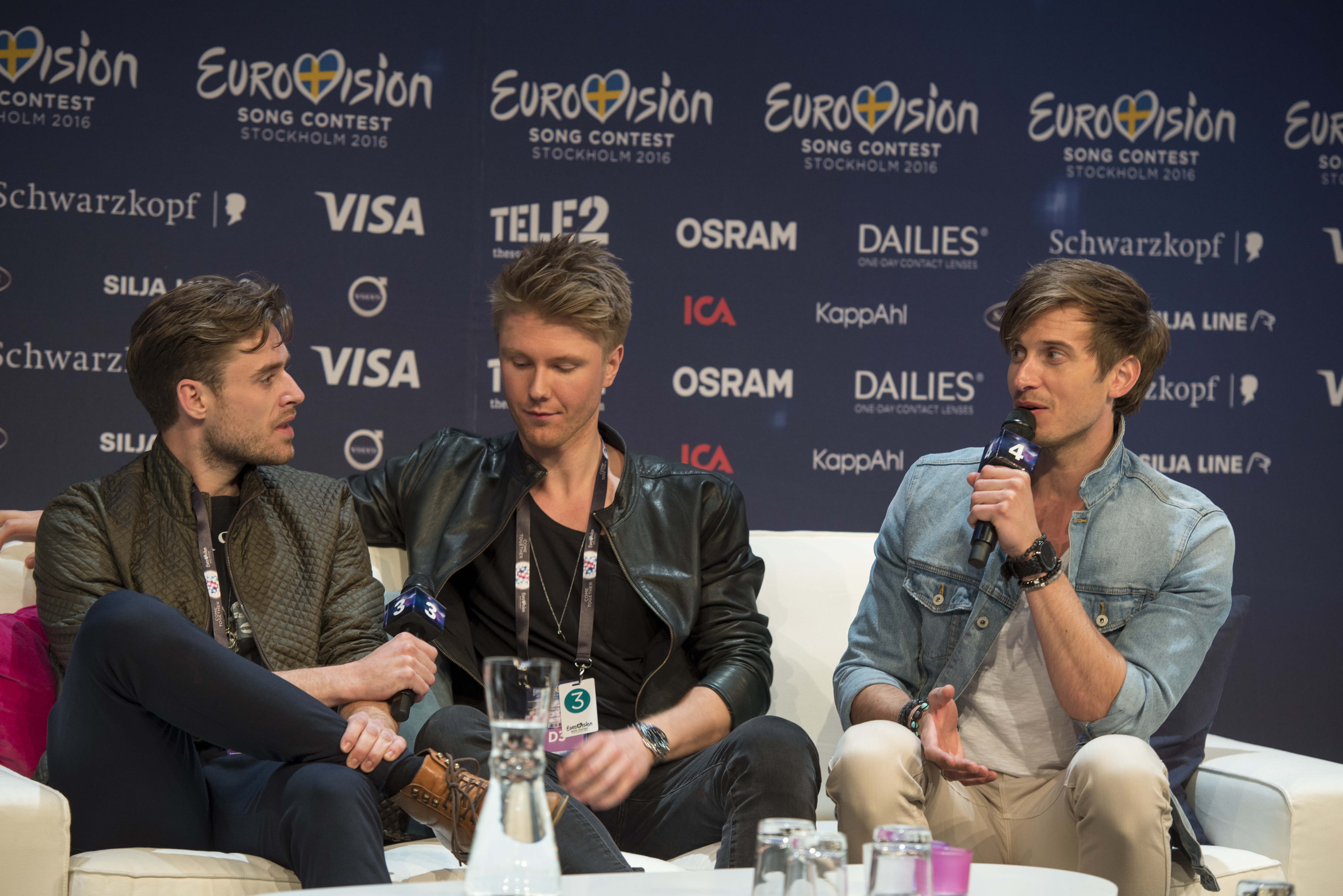 Lighthouse X at a Meet & Greet during the Eurovision Song Contest 2016 in Stockholm. (Help translate this text)